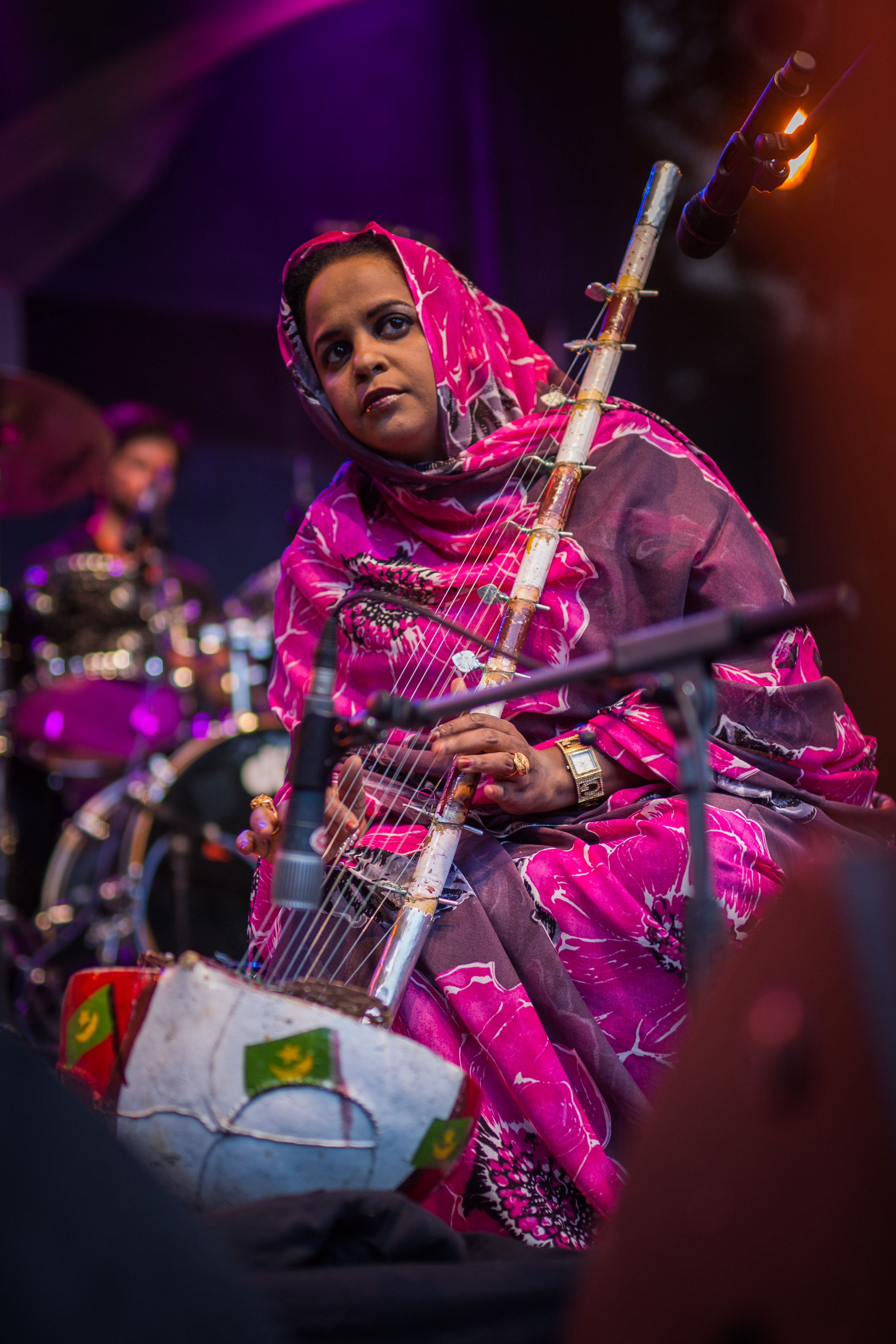 Noura Mint Seymali TTF.Rudolstadt 2015 Festivalsommer This photo was created with the support of donations to Wikimedia Deutschland in the context of the CPB project "Festival Summer".